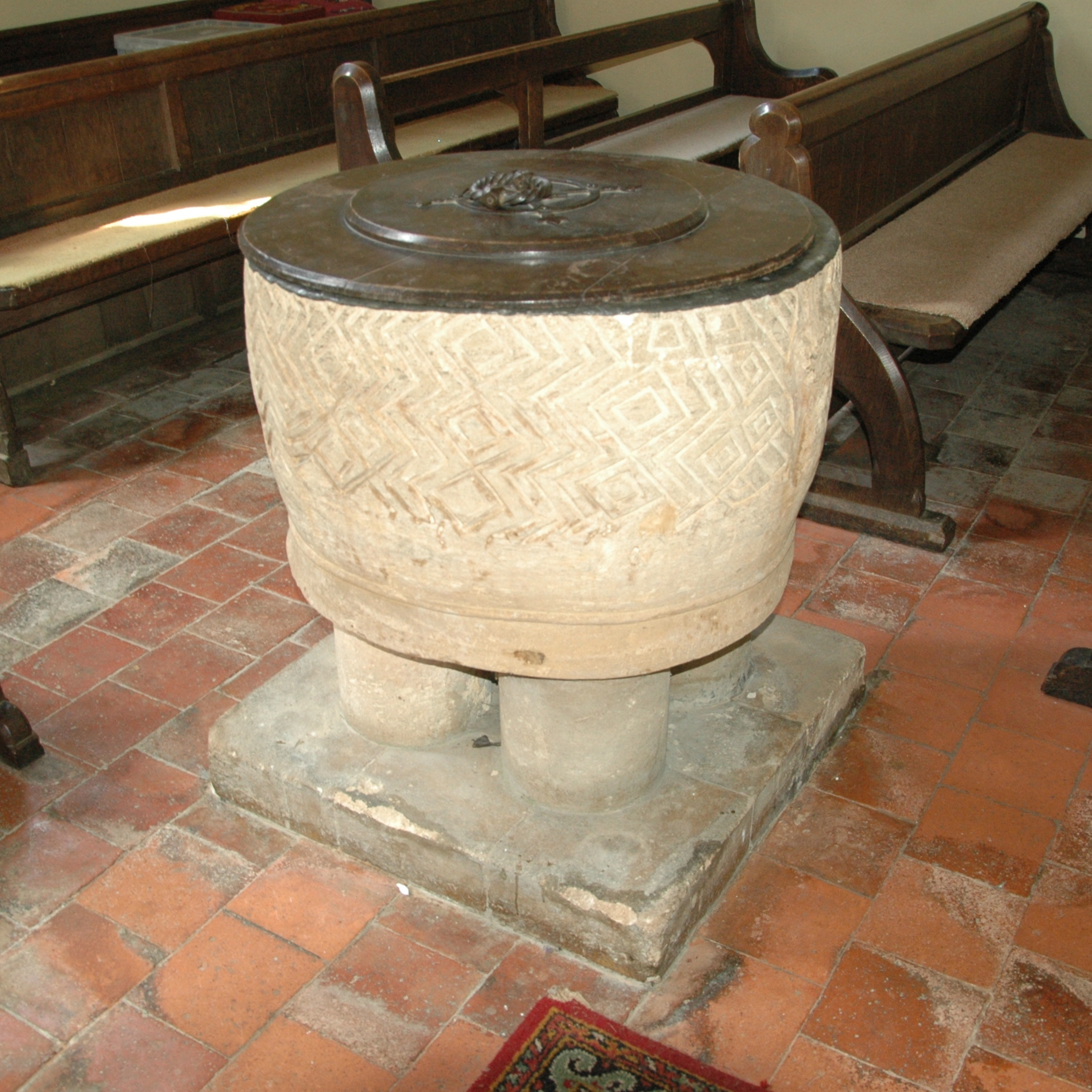 Church of England parish church of St John the Evangelist, Hempton, Oxfordshire: Norman font transferred from Holy Trinity parish church, Over Worton